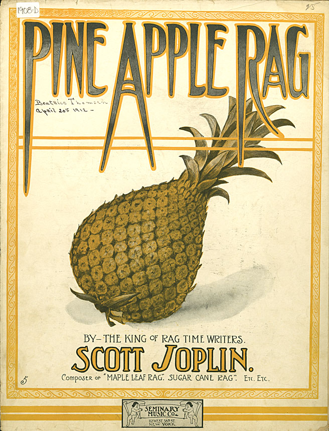 "Pine Apple Rag", by Scott Joplin sheet music cover from 1908